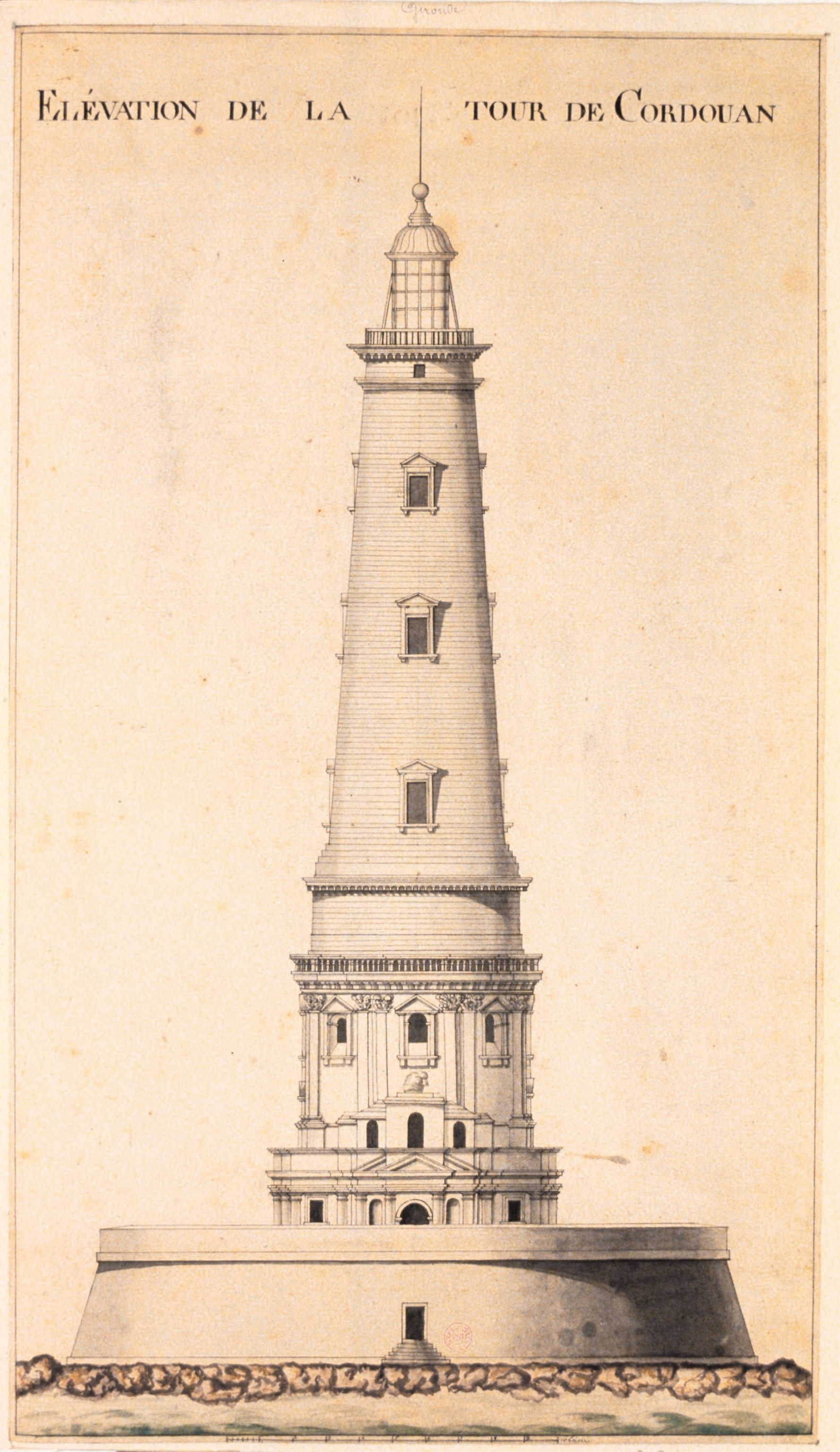 Cordouan lighthouse elevation. Drawing.